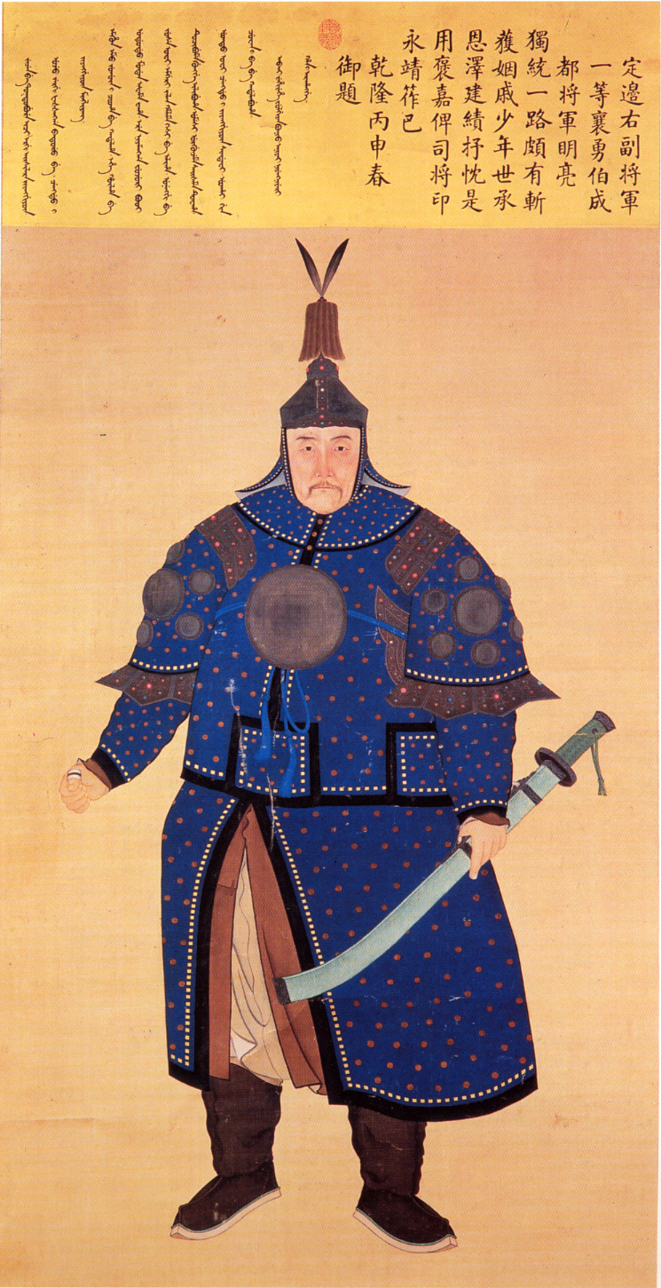 Mingliyang / chin. Mingliang (明亮 ming liang), an officer of the Qing Army during Qianlong's era.